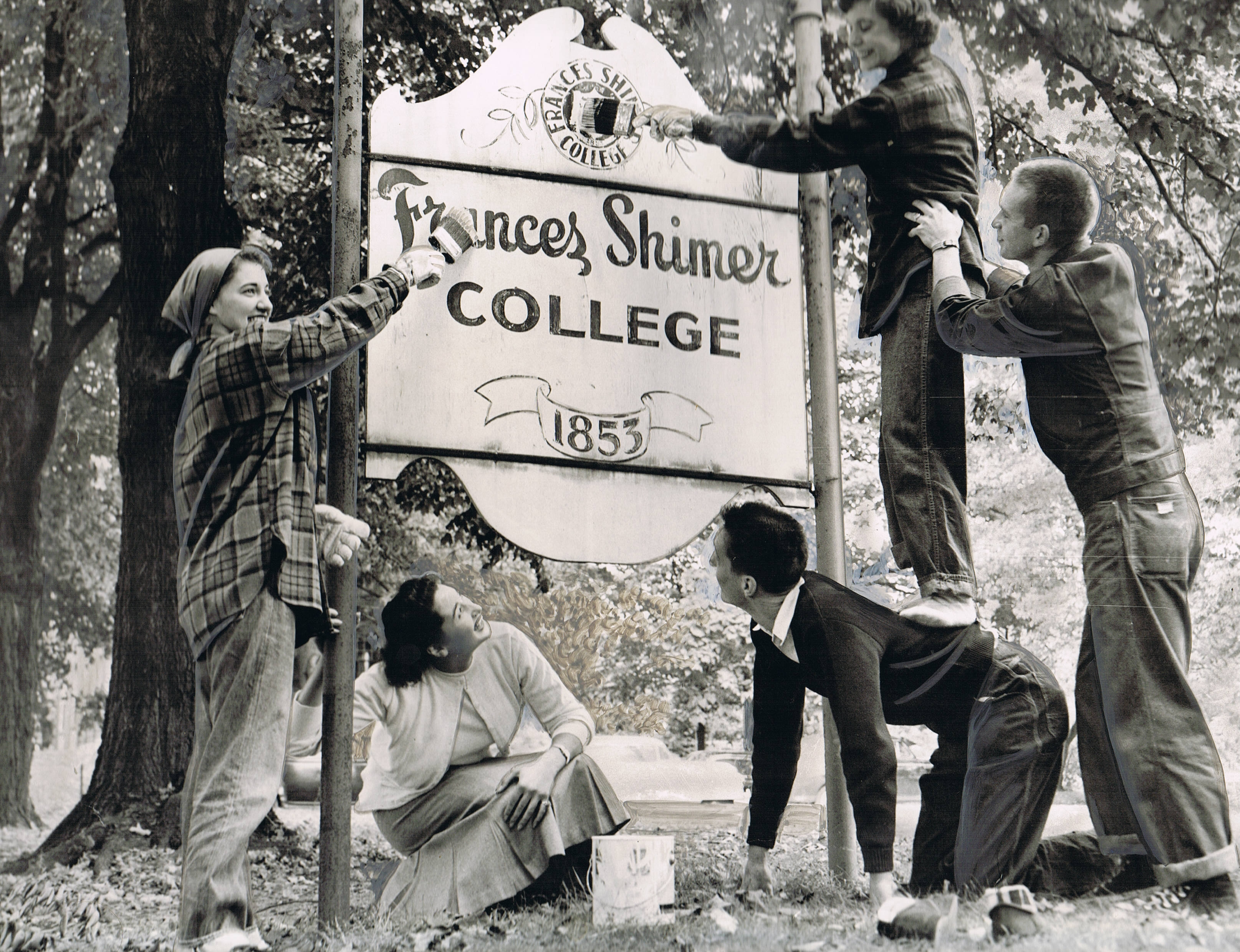 Shimer College students painting the name "Frances" out of the school sign, the official name of the college having just been changed from "Frances Shimer College" to "Shimer College."